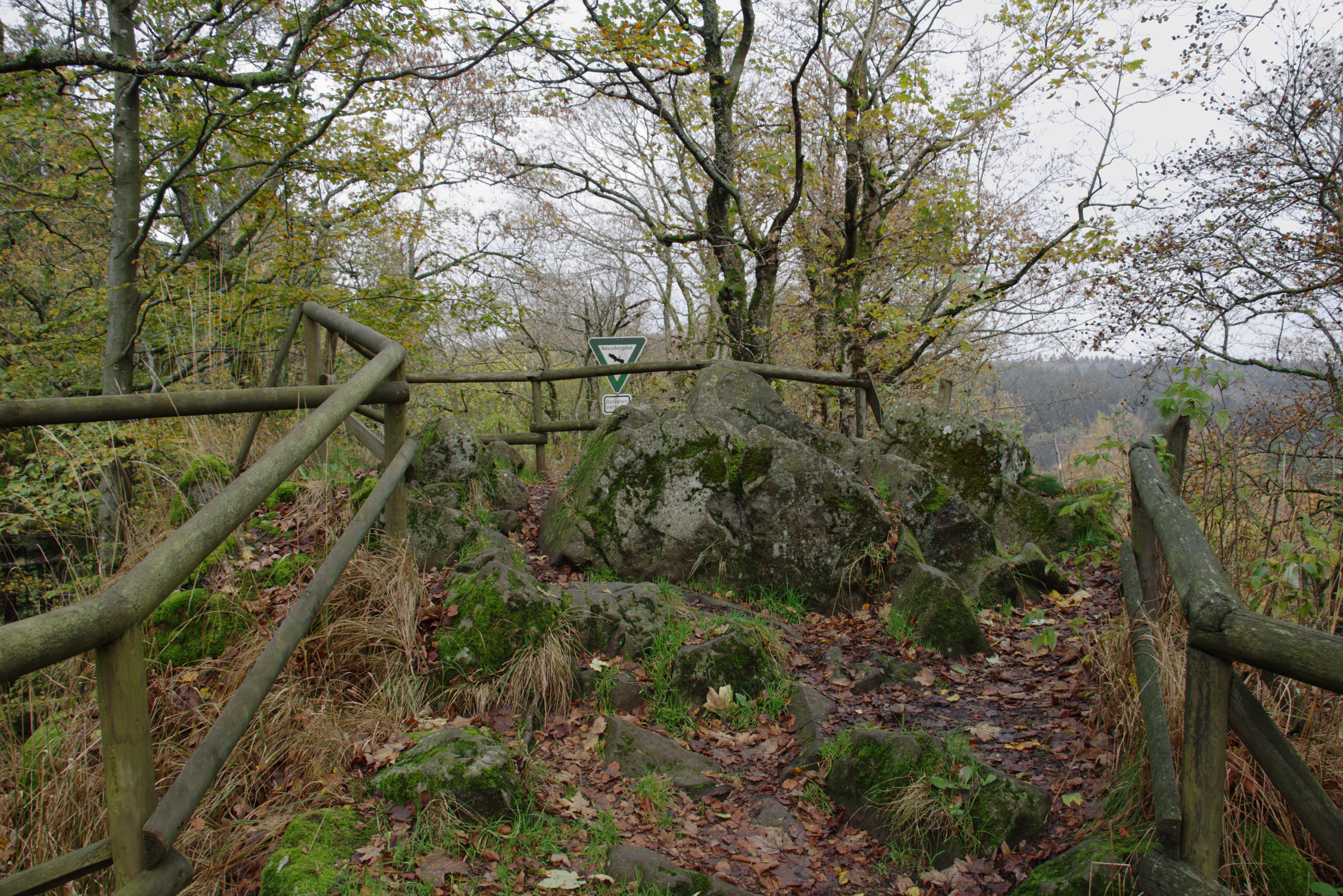 "Naturschutzgebiet In der Breungeshainer Heide" in "Naturpark Hoher Vogelsberg" Geiselstein (Summit), Schotten, Hesse, Germany